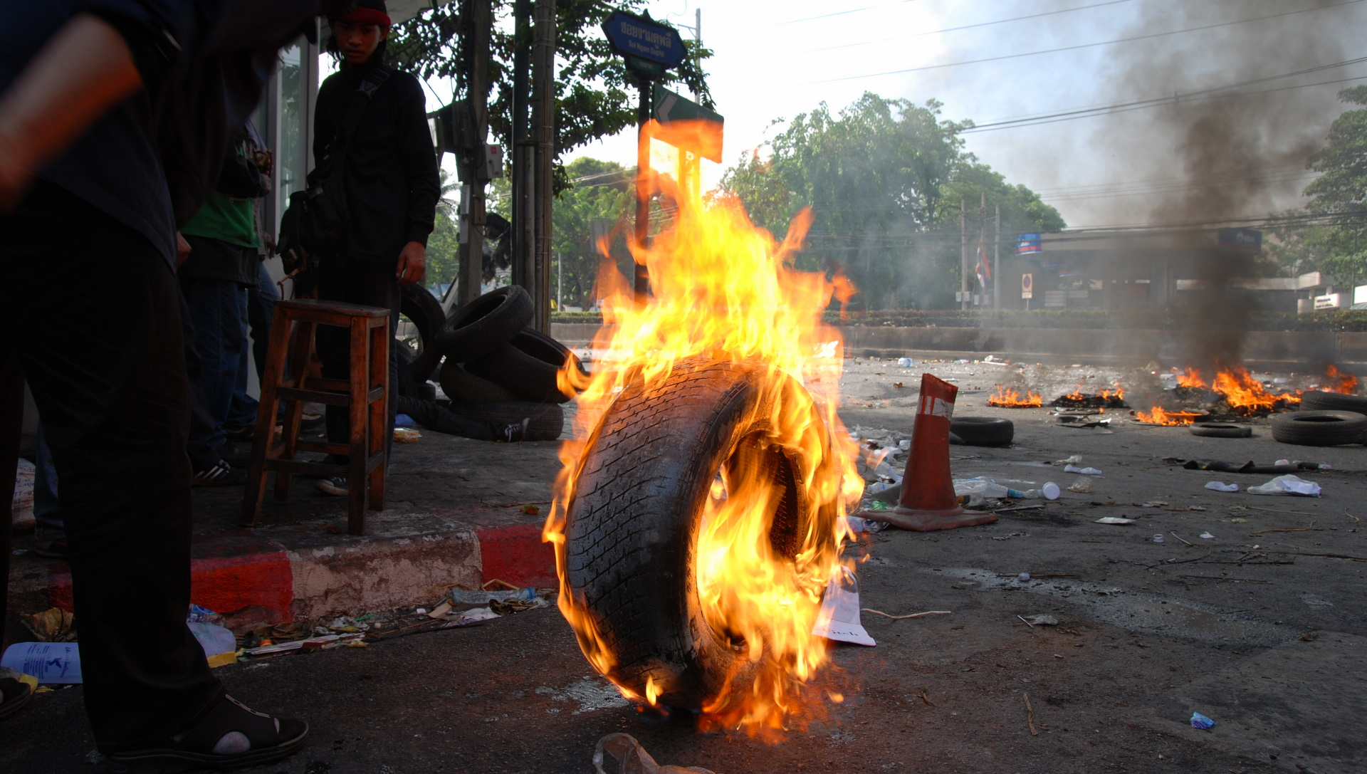 A tyre, with its interior filled with petrol and set on fire, is ready to be kicked out on to Rama 4 road in Bangkok. The resulting smoke creates a smoke screen between the army and a large "red shirt" barricade further down Rama 4 preventing the army of getting a clear view of the protesters there.